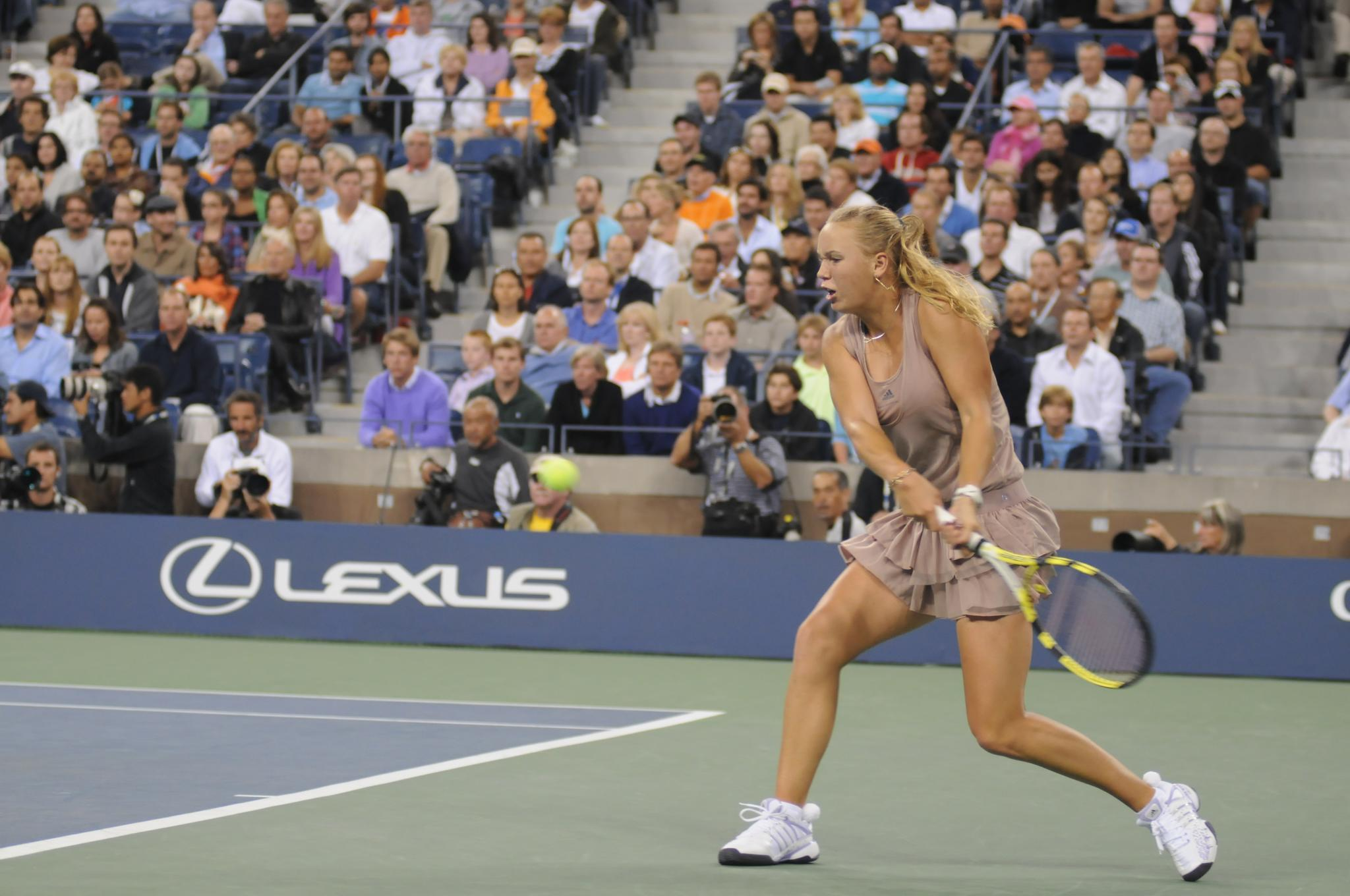 Caroline Wozniacki at the 2009 US Open